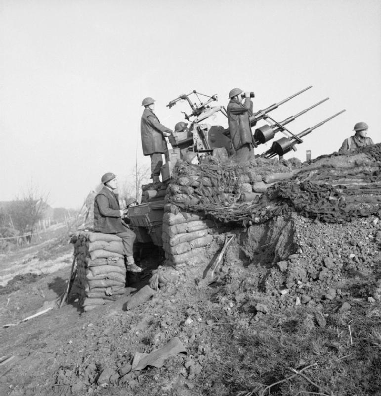 British Polsten triple 20mm anti-aircraft mounting on the banks of the Rhine, 25 March 1945.